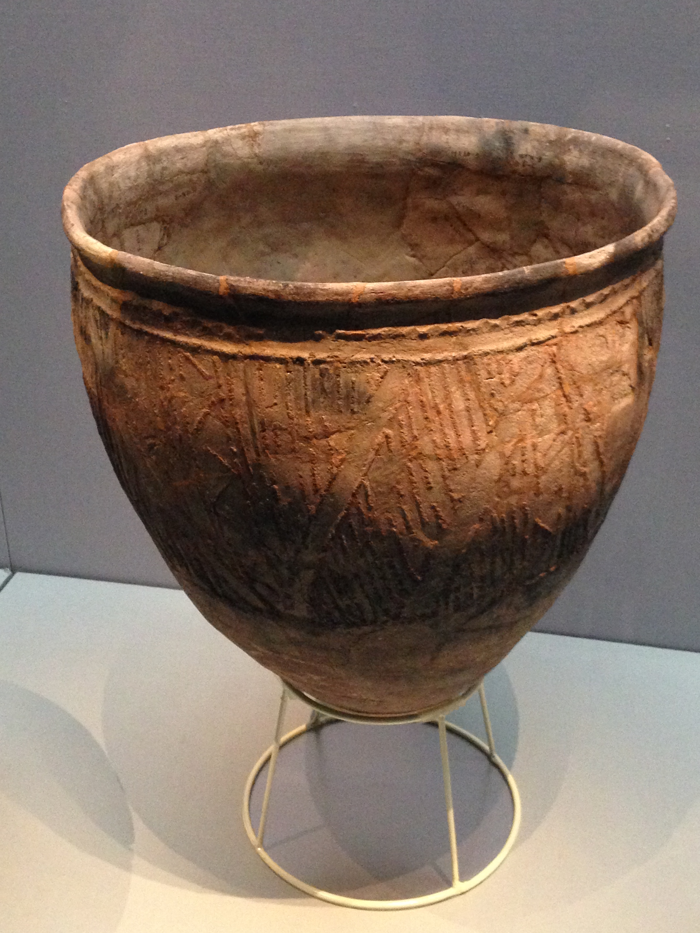 Pottery with applique decoration